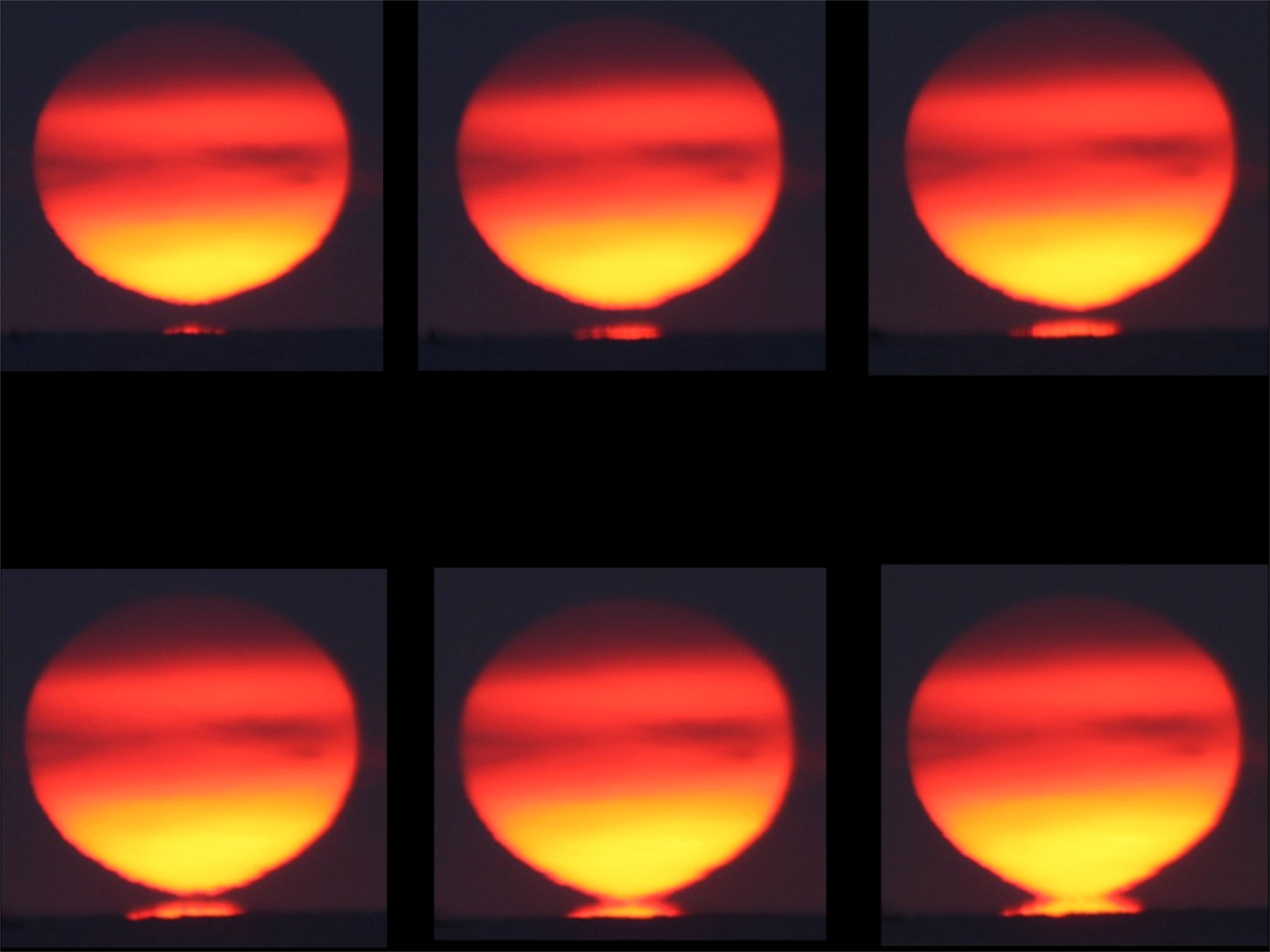 Sunset Inferior Mirage. Please take a look how this sunset looked